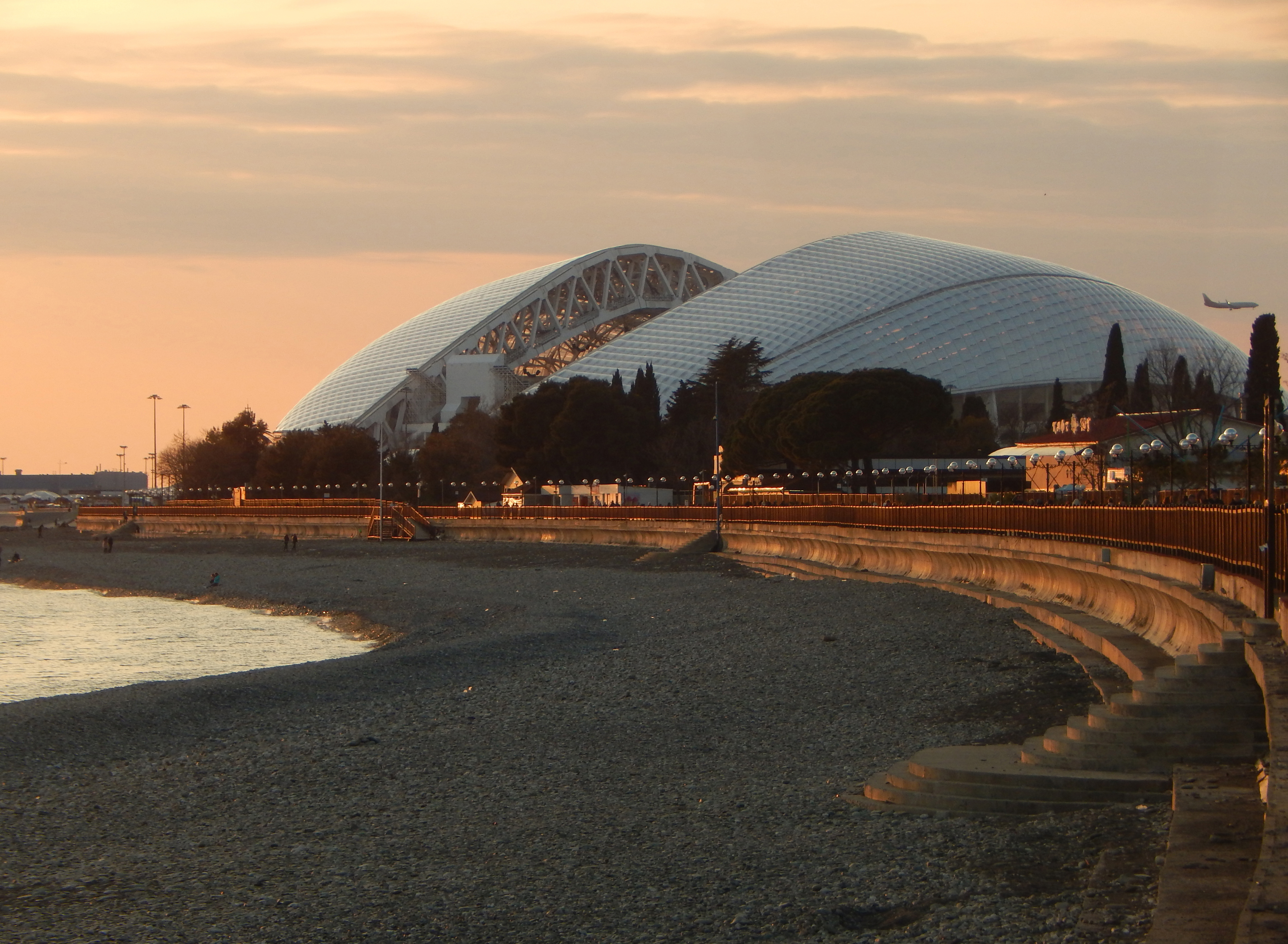 Fisht Stadium on April 4, 2019.